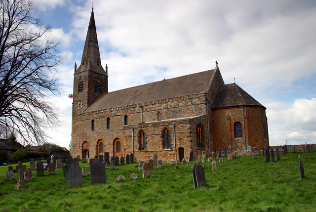 All Saints' parish church, Brixworth, Northamptonshire, seen from the southeast